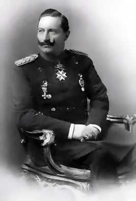 The German emperor, king Wilhelm II v. Prussia (in 1859-1941, reign 1888-1918), in Prussian officer's uniform (Überrock). The simple Überrock with small order decoration was the knock about clothes of the military. Orders: Cervical orders: Protector cross of the Maltese Knight's order. In the buttonhole: the military order of savoy